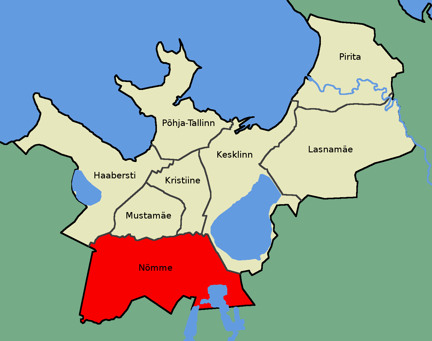 Tallinn (Estonia), the city district of Nõmme, with legend